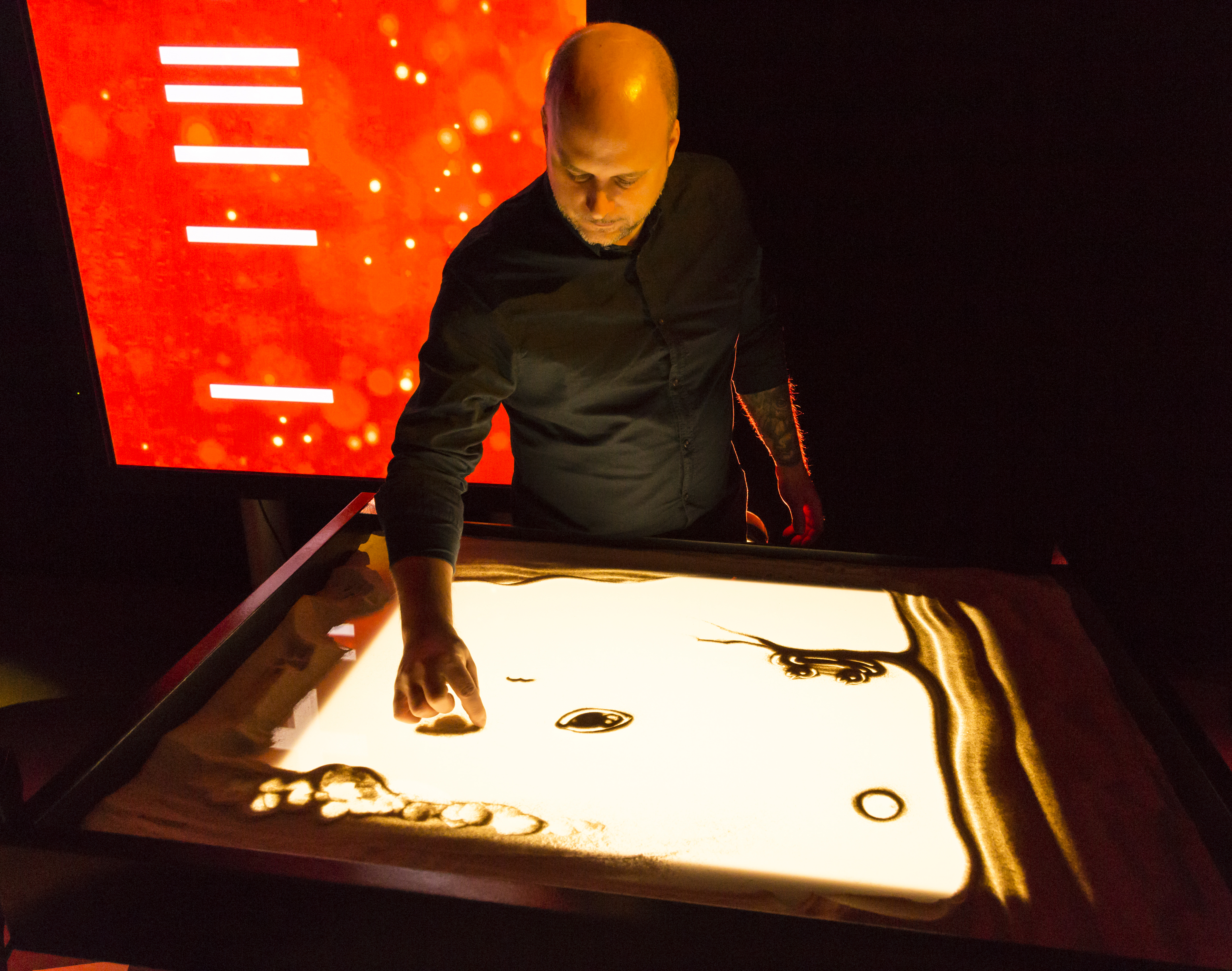 photo prise durant l’émission +3 degrés de la RSI en 2017